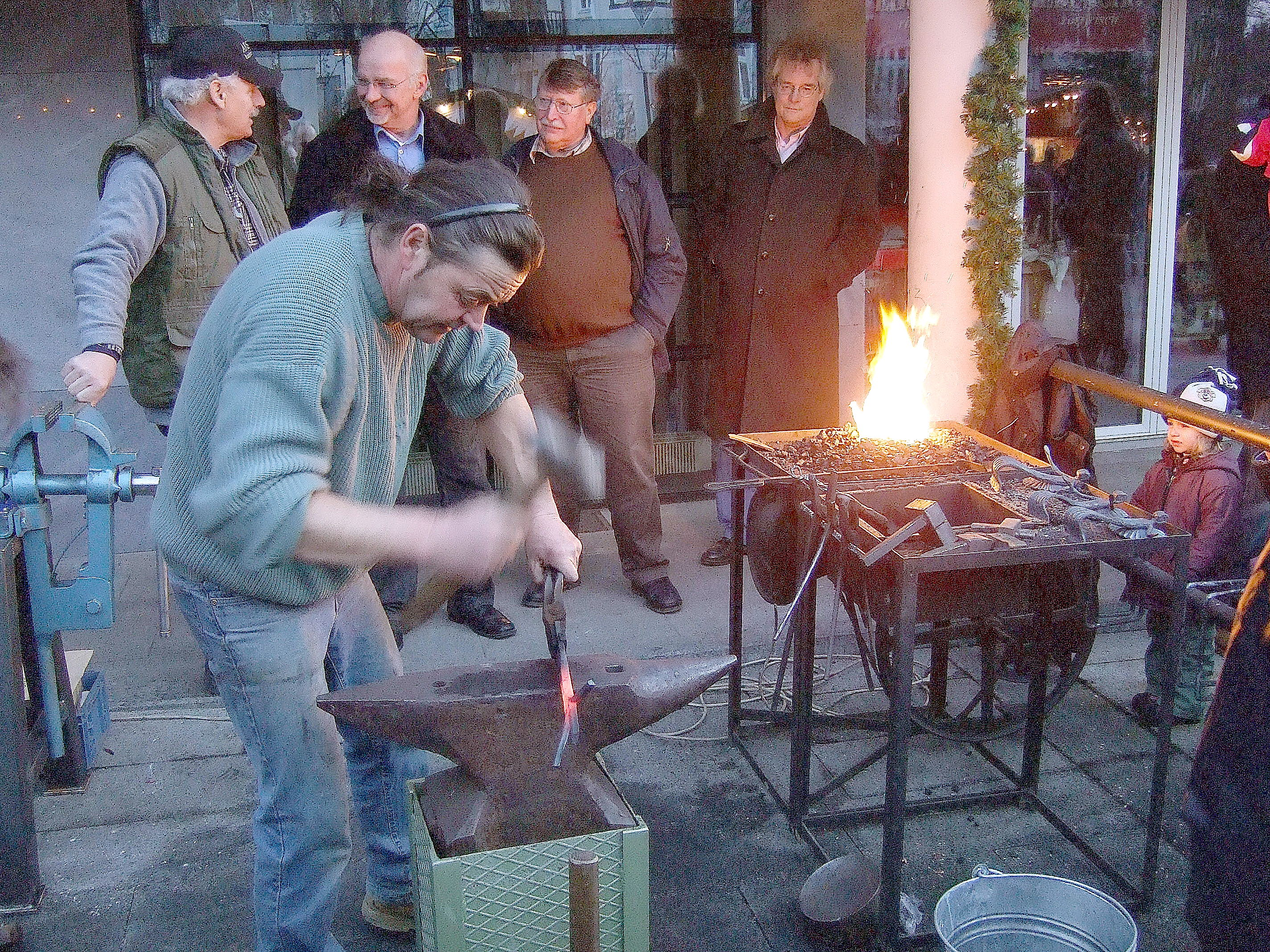 Blacksmith demonstration at the "Christkindlmarkt" christmas market in the community Velden, district Villach-Land, Carinthia, Austria